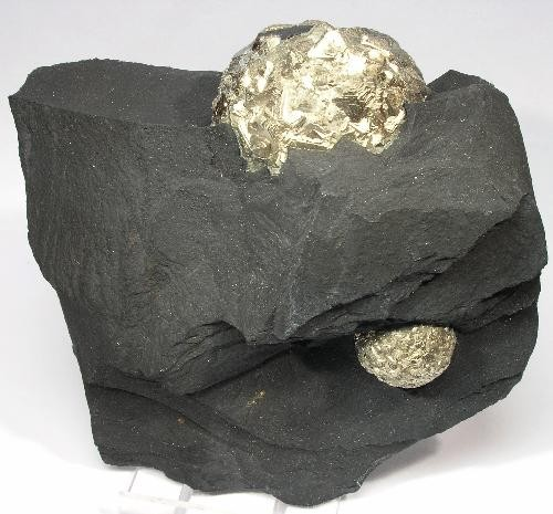 Pyrite Locality: Millstream Station, Pilbara Region, Western Australia, Australia (Locality at ) Size: 9.5 x 9.2 x 3.7 cm. Two attractive complex balls of Pyrite crystals set beautifully against a black shale matrix. The larger ball is about 3.7 cm across, and the smaller perfect sphere is 1.9 cm across. Both are composed of modified cubes, and have excellent metallic luster. Very unusual material! Charlie Key must have loved it, as he bought a flat of it decades ago and put it away.